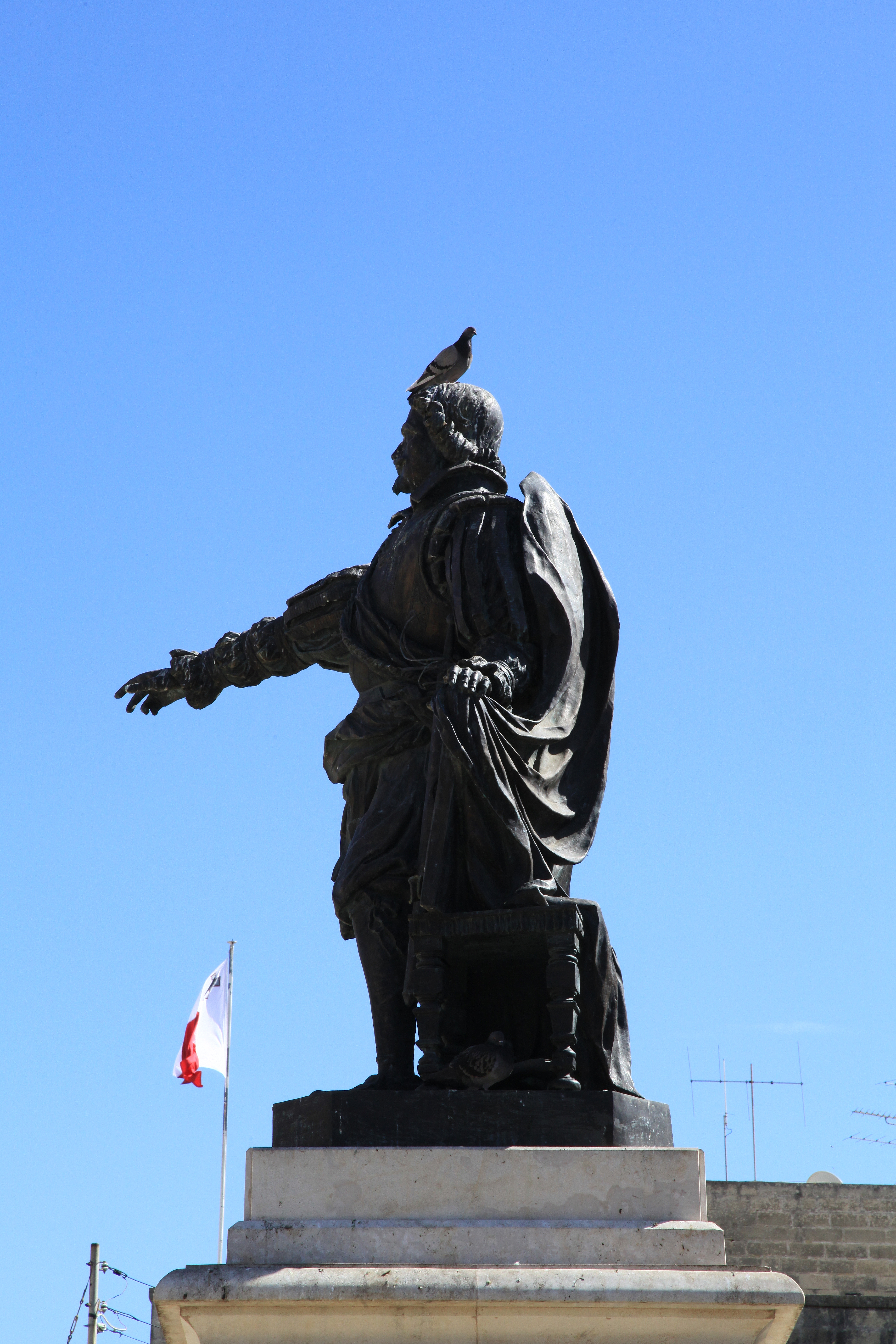 Floriani Monument, Pjazza Robert Samut in Floriana, Malta